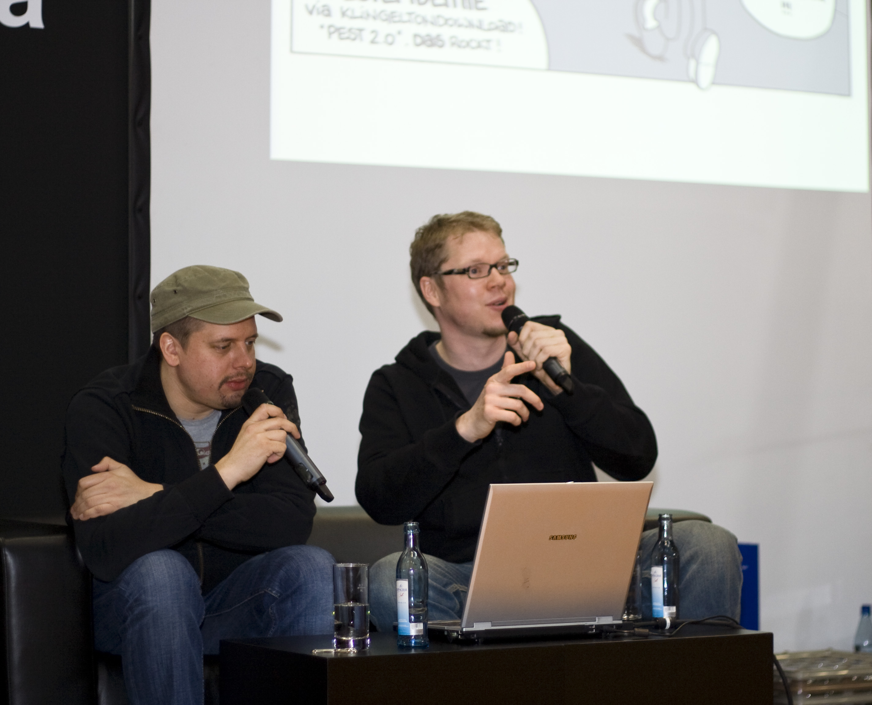 Ralph Ruthe (left) and Flix (right) at the Leipzig Book Fair.